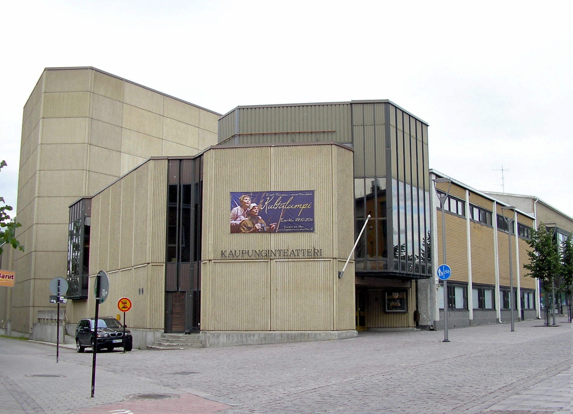 Lappeenranta City Theatre.